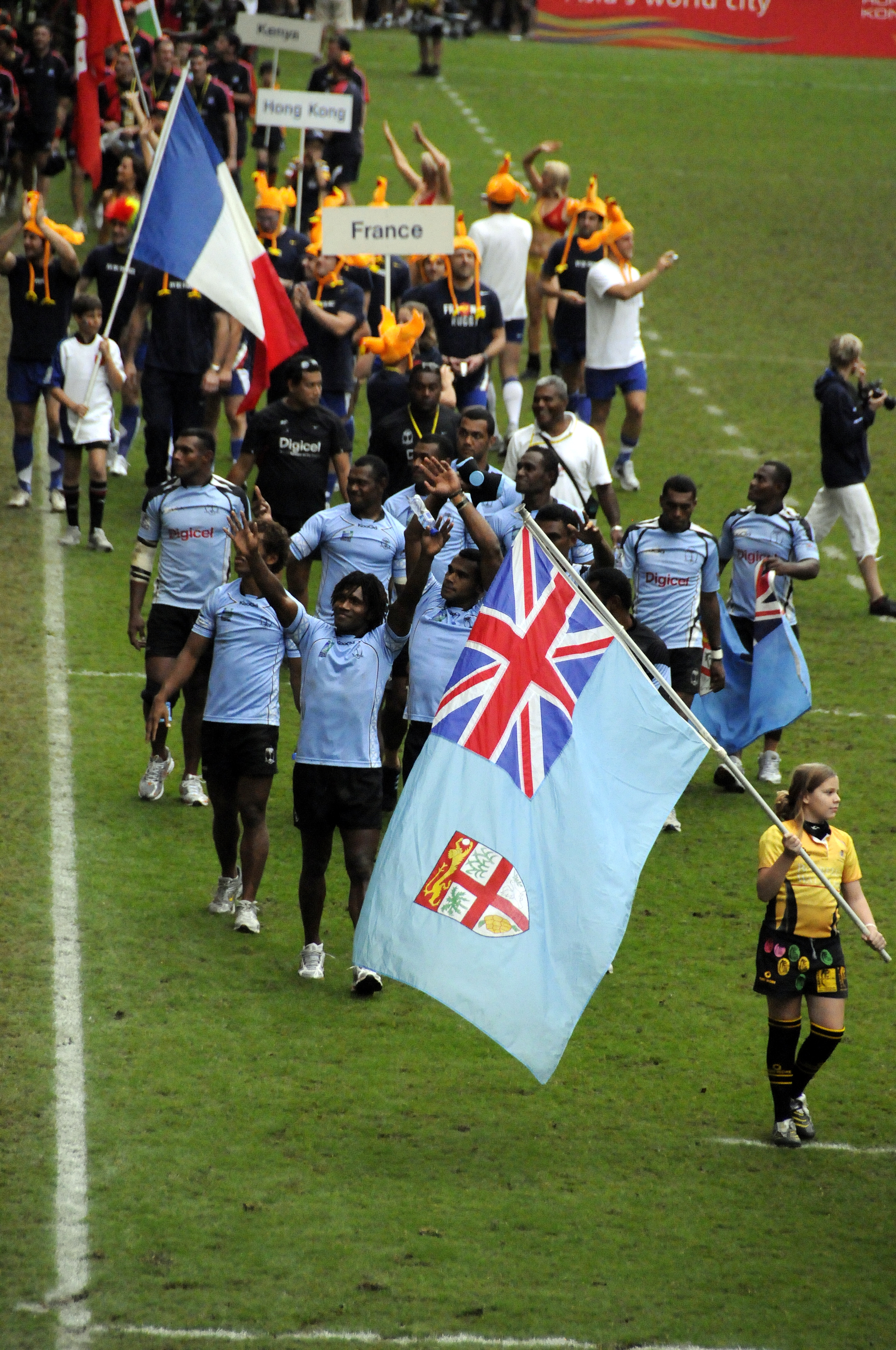 Fiji Sevens Rugby Team at the 2009 Hong Kong Sevens